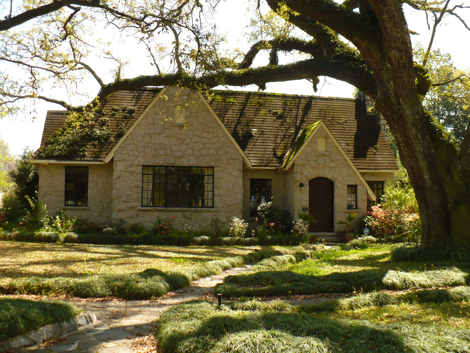 102 Levert Avenue, within the Ashland Place Historic District in Mobile, Alabama.